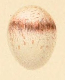 Egg of Arachnothera longirostra